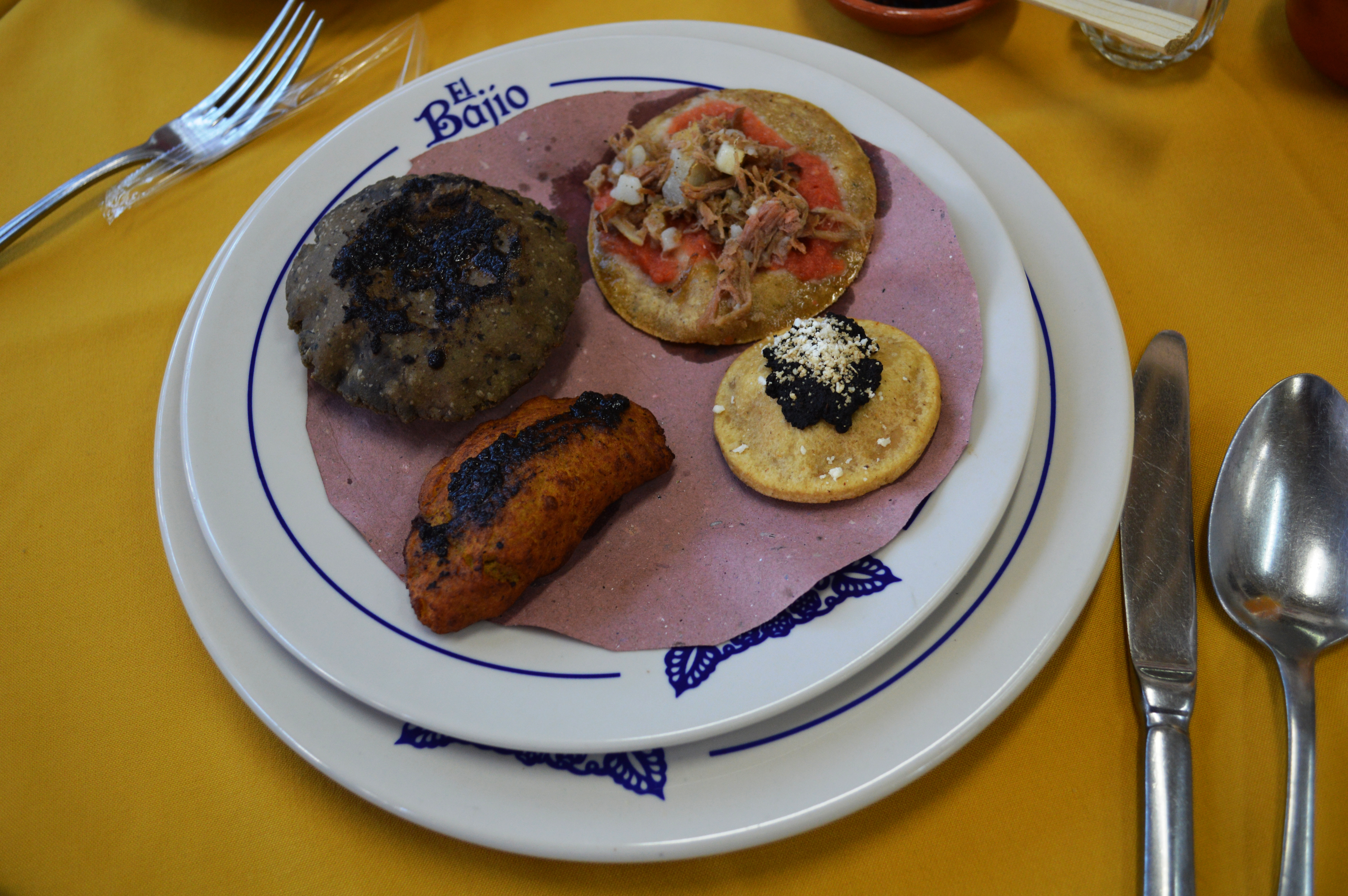 Four "antojitos" from Veracruz served at the El Bajió restaurant in Azcapotzalco, Mexico City